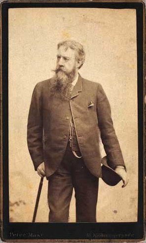 Self-portrait of Peder/Peter Most (1826-1900), Danish photographer